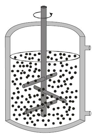 Diagram of attritor (Torrey Hills Tech)